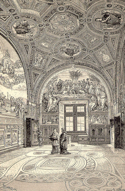 Camera della Segnatura, Stanze di Raffaello, Vaticano, Roma.